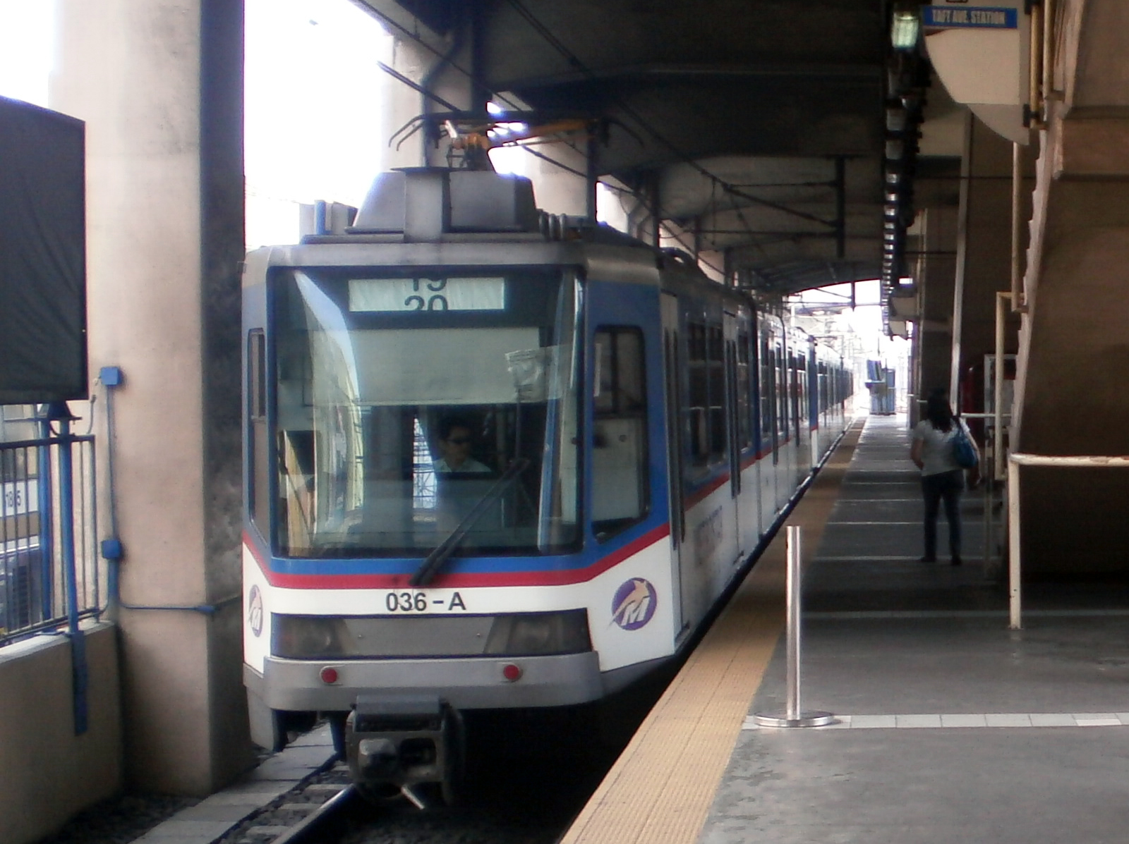 Platform area of MRT-3 Taft Avenue station